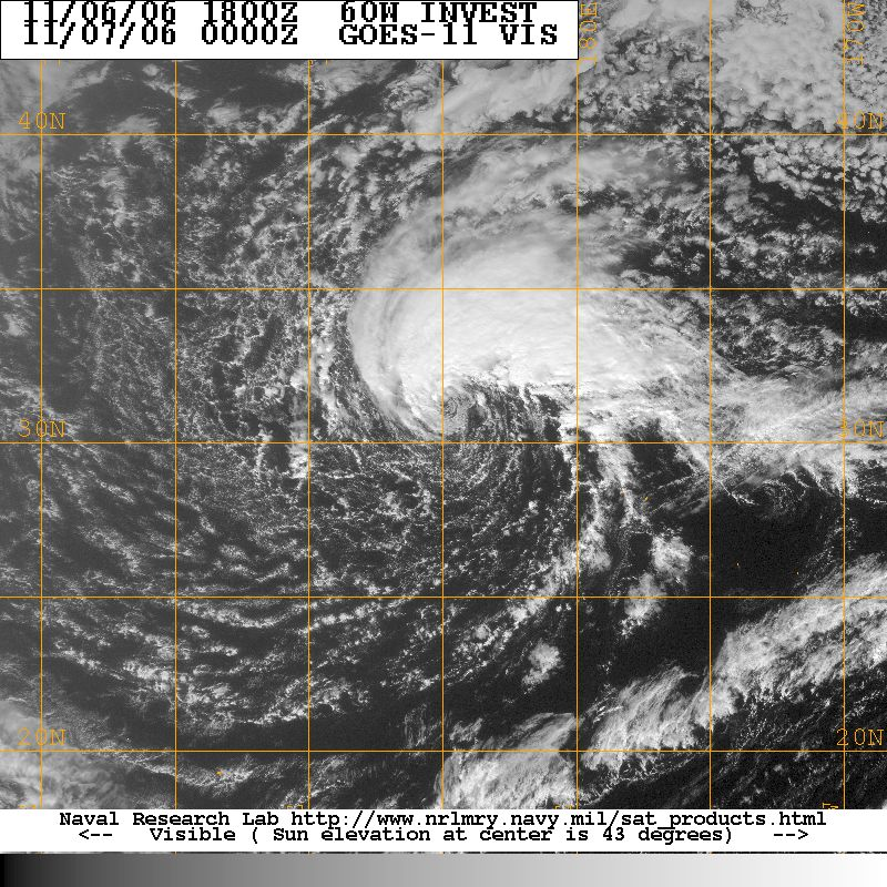 The 2006 cyclone off Midway Atoll persisting west of the International Date Line early on November 7, 2006.